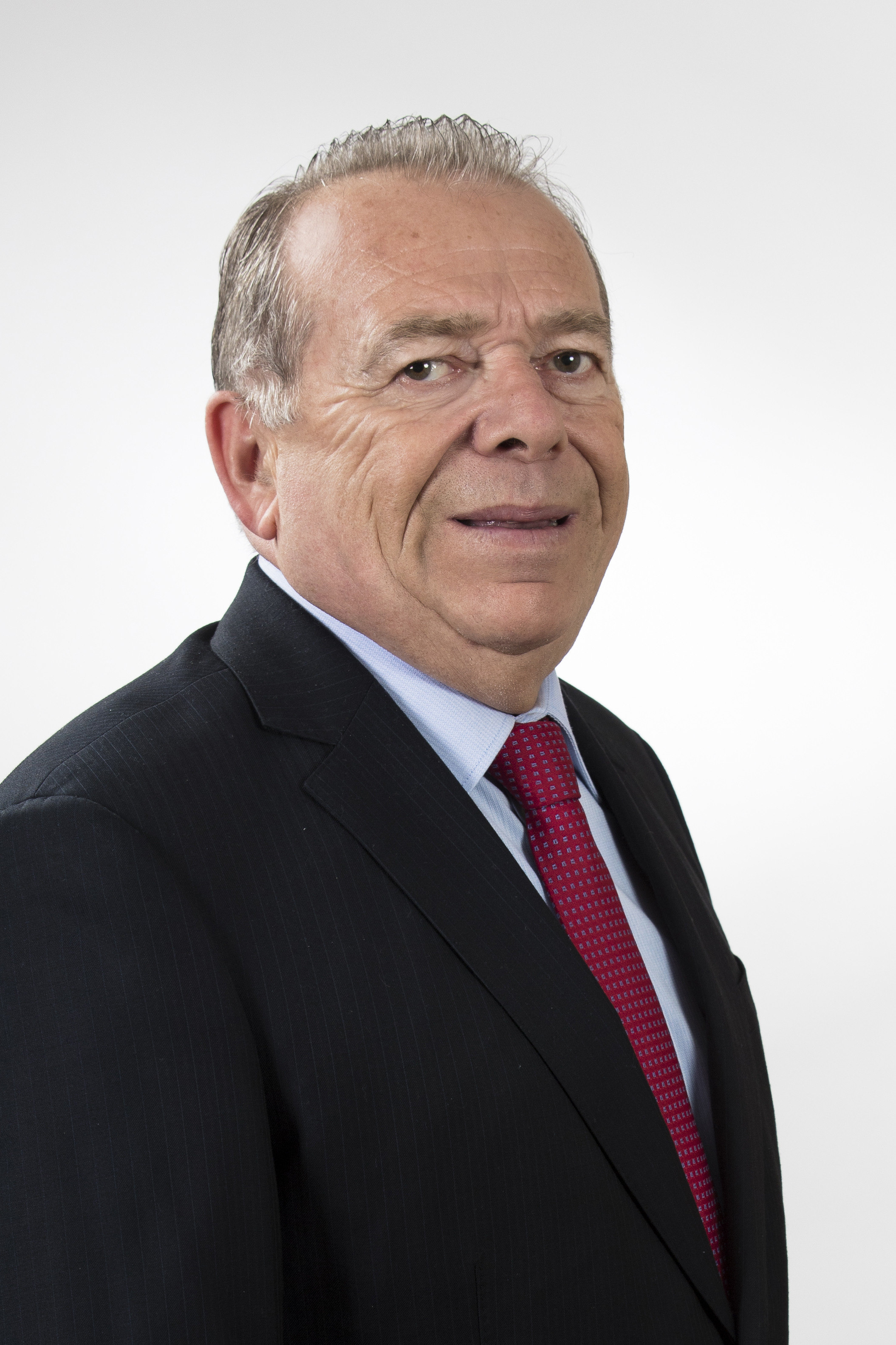 Bernardo Berger Fett en la fotografía oficial de diputados periodo 2018-2022. (Fotos: Christel Andler, René Lescornez, Johanna Zárate)